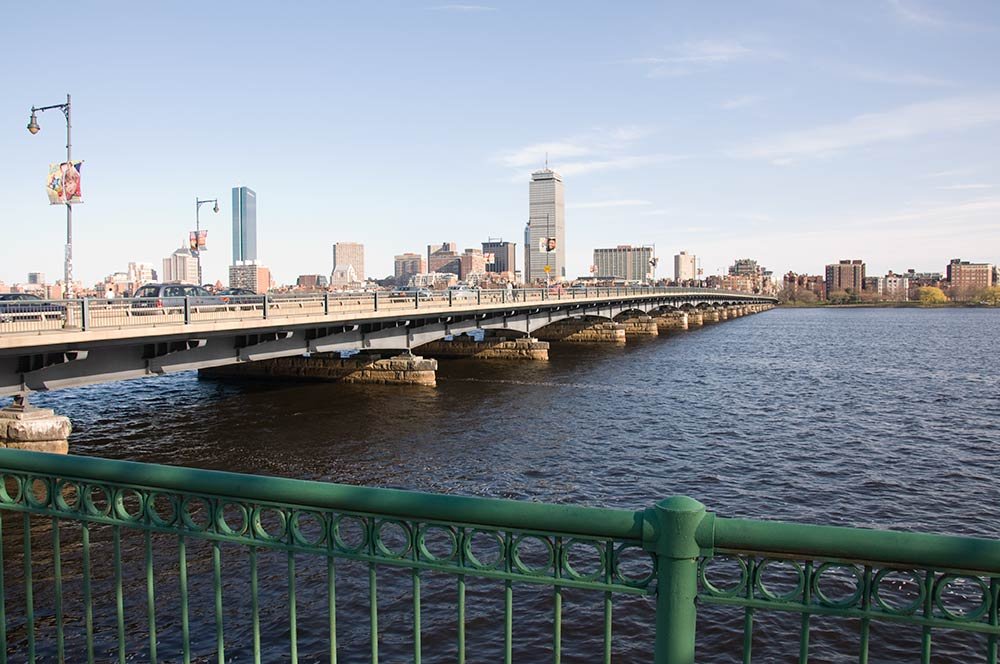 Harvard Bridge from Cambridge, 2009. This view shows the replaced superstructure, in much better shape 20 years after it was completed, than the previous structure file:Harvard Bridge, Spanning Charles River at Massachusetts Avenue, Boston ( Suffolk County, Massachusetts).jpg roughly 40 years after most recent major work.